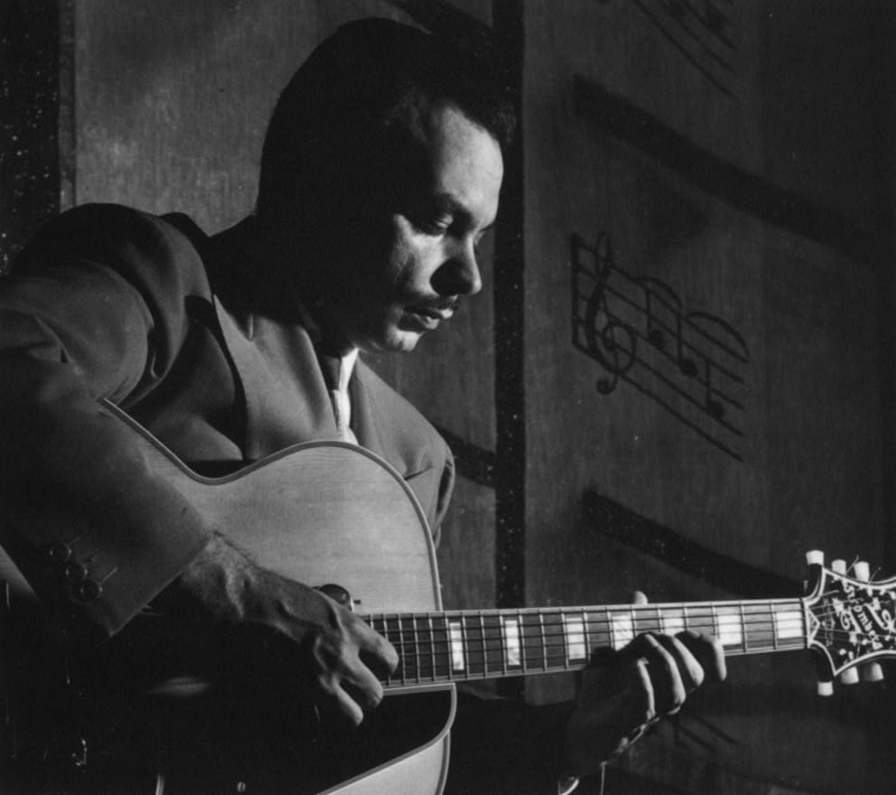 Portrait of Laurindo Almeida, Richmond, Va.(?), 1947 or 1948